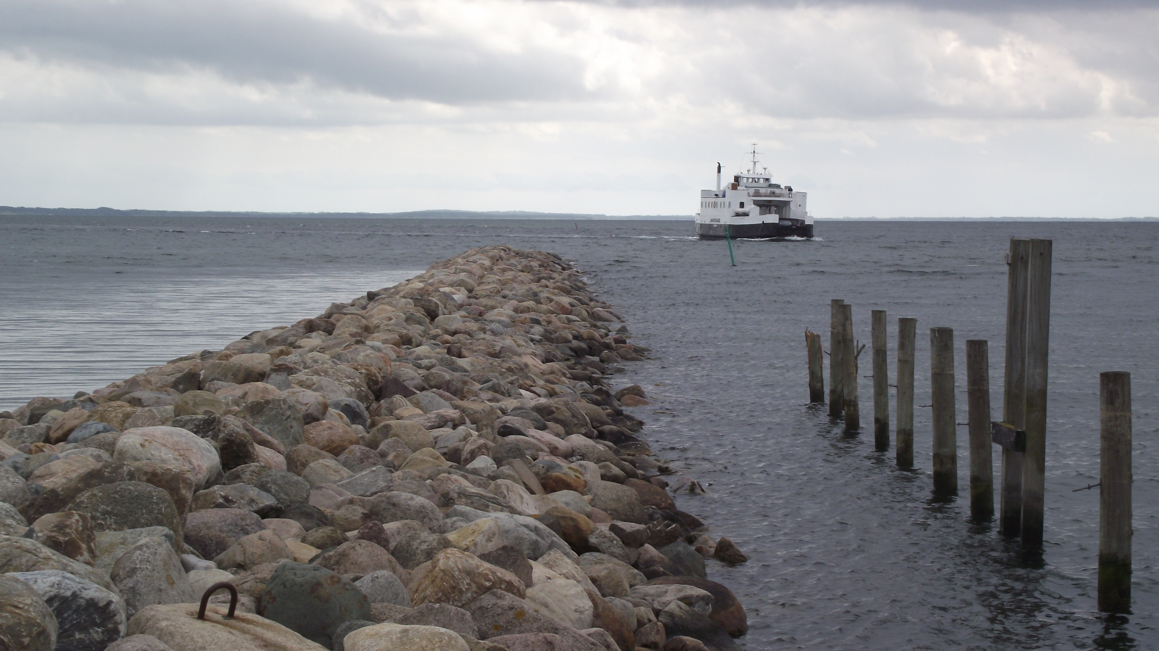 Ferry arriving at Rørvig Ferry port.